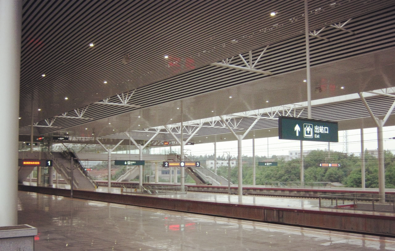 The station